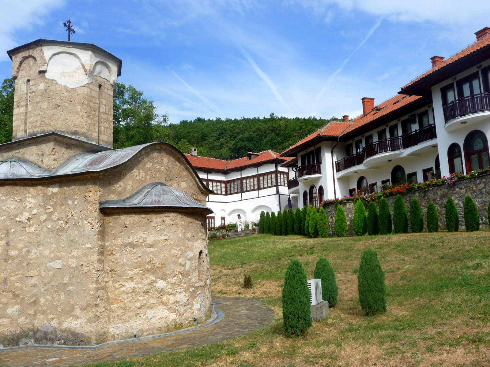 Manastir Lipovac